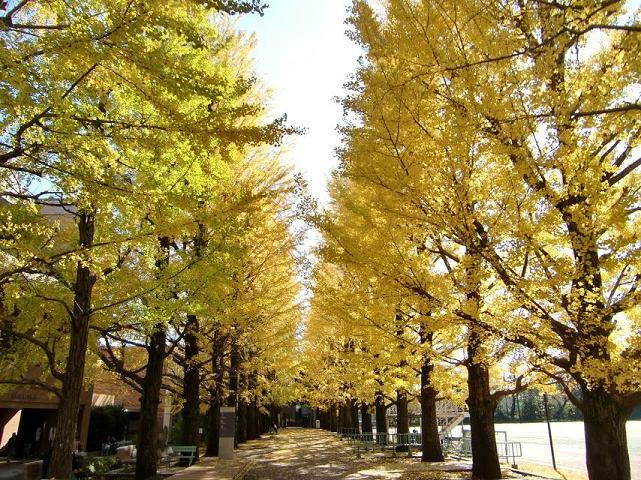 The main entrance of the Second Junior and Senior High School of Nihon University, famous ginkgo(ginko) tree lined, Suginami-ku, Tokyo Japan.